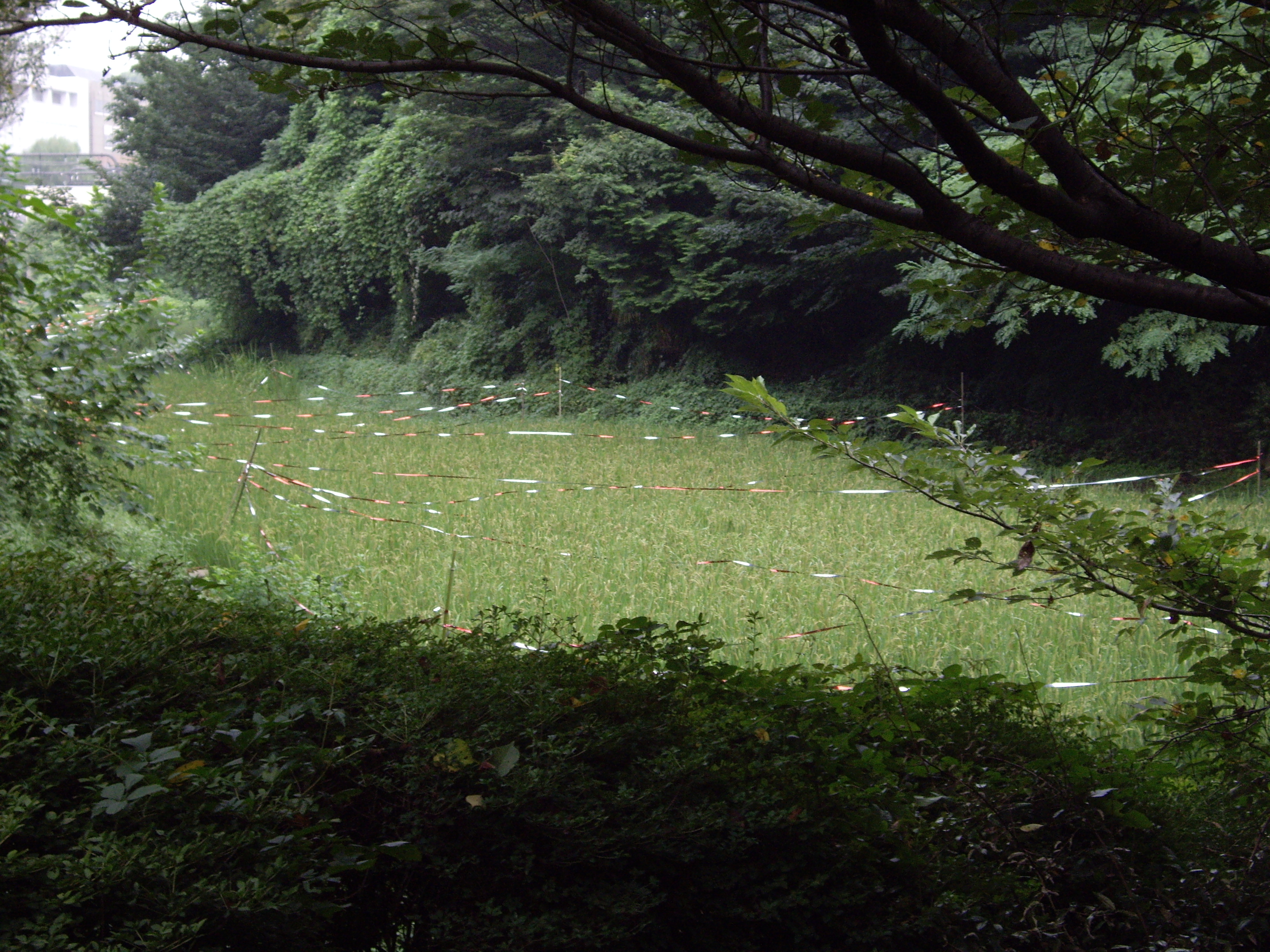 A Kellner paddy field. Photographed on 2006-09-07 by Benjamin58.